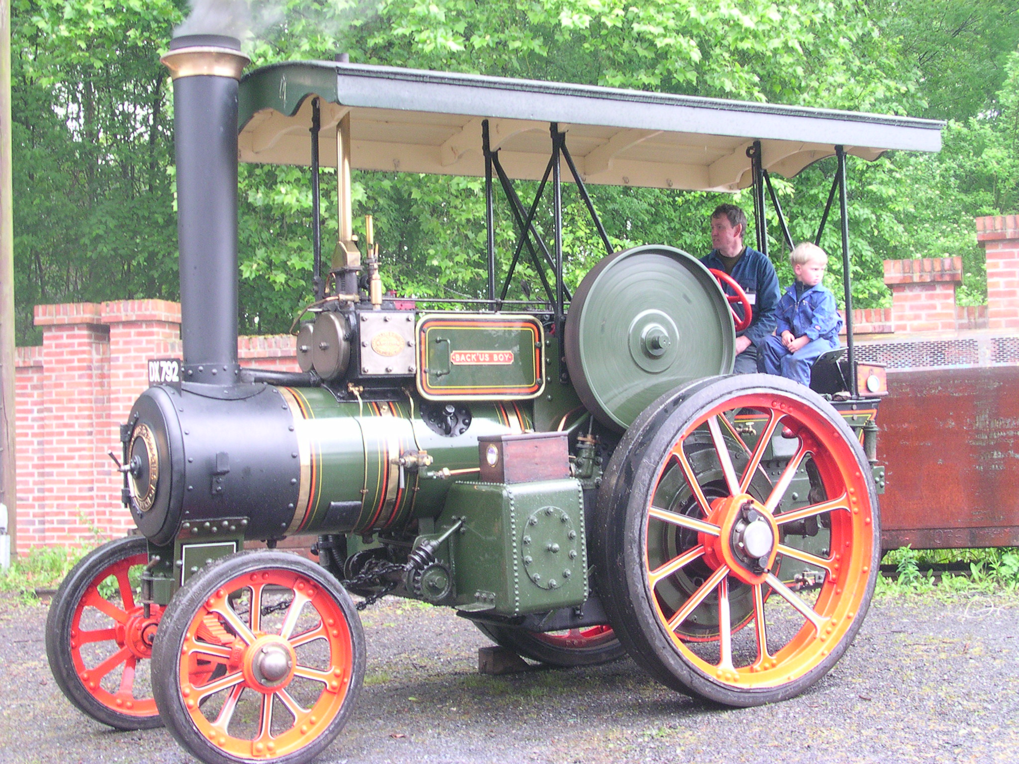 5th steam festival in Bochum, Germany 2007. Traction machine "Back'us Boys" from Ransomes, Sims & Jefferies, Ipswich, GB, built 1910 Engine details Manufacturer: Ransomes, Sims & Jefferies Type: Light steam tractor (traction engine) Works no: 23266 Built: 1910 Cylinders: Compound Gears: 2 NHP: 4 Reg. no.: DX 792 More pictures